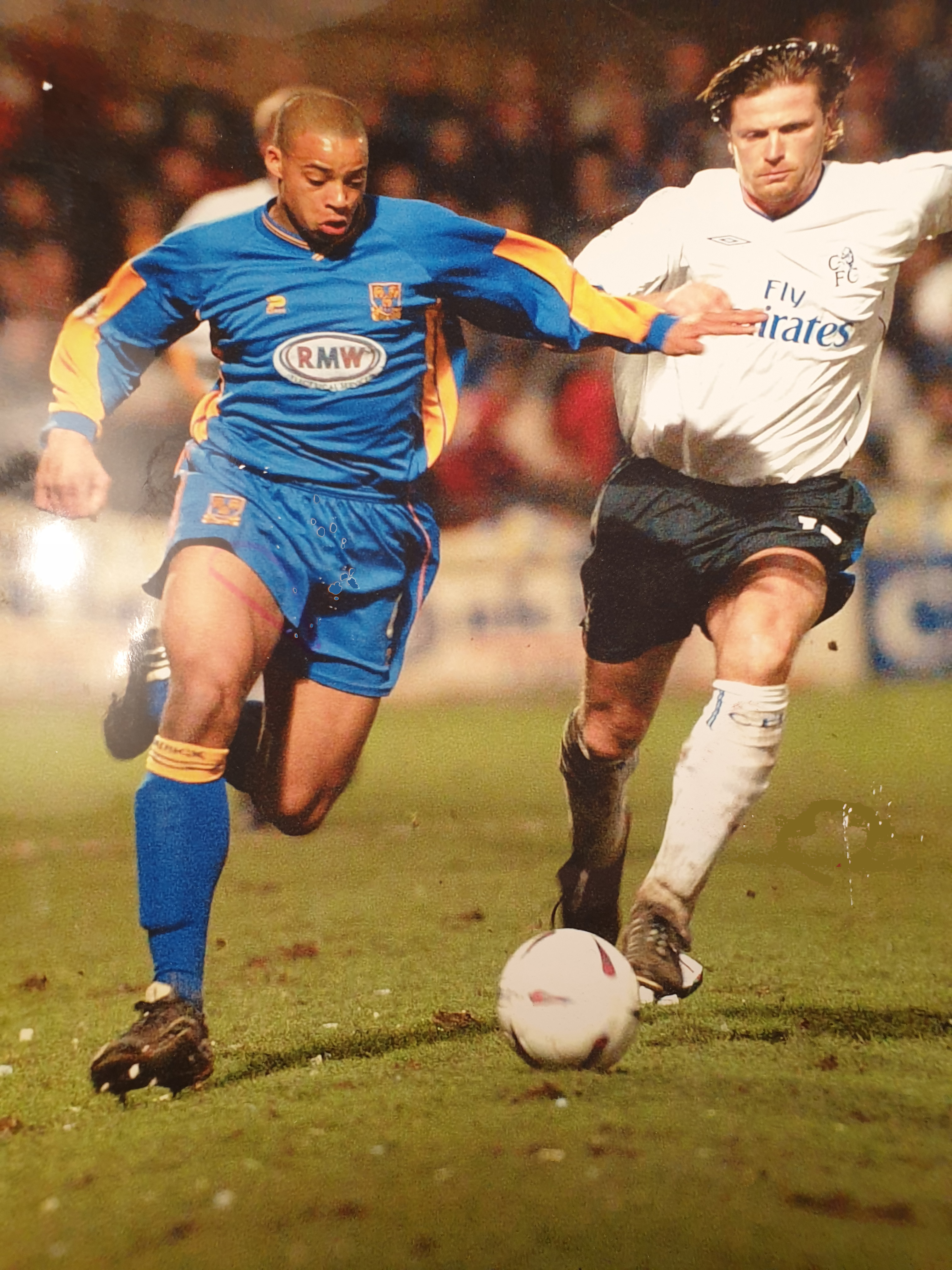 Murray playing against french world cup winner and former arsenal player Emmanuel Petit